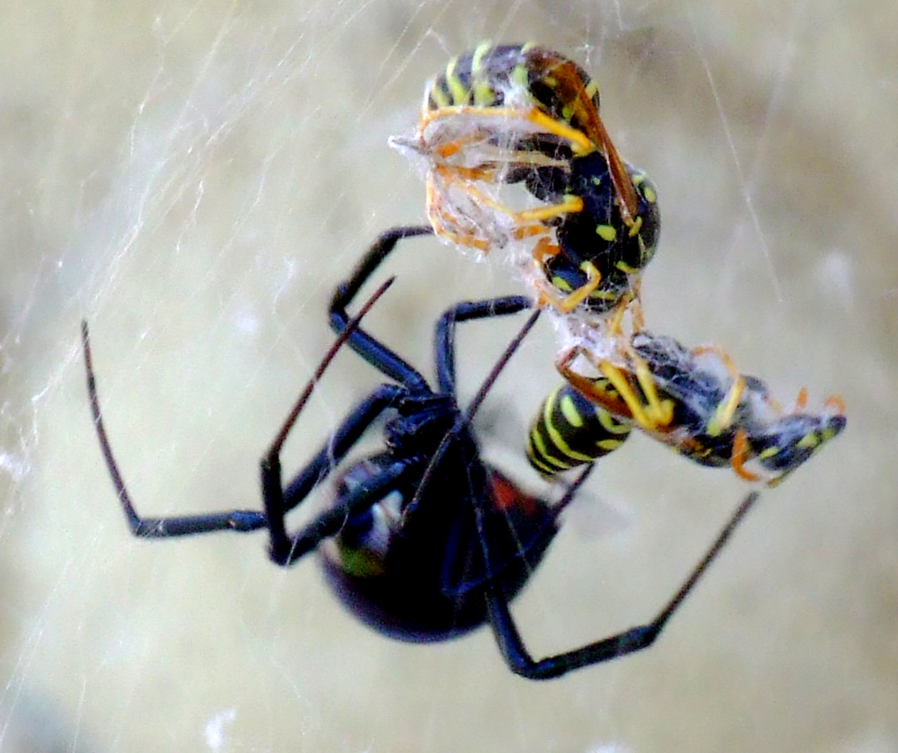 Black widow spider parceling up wasps